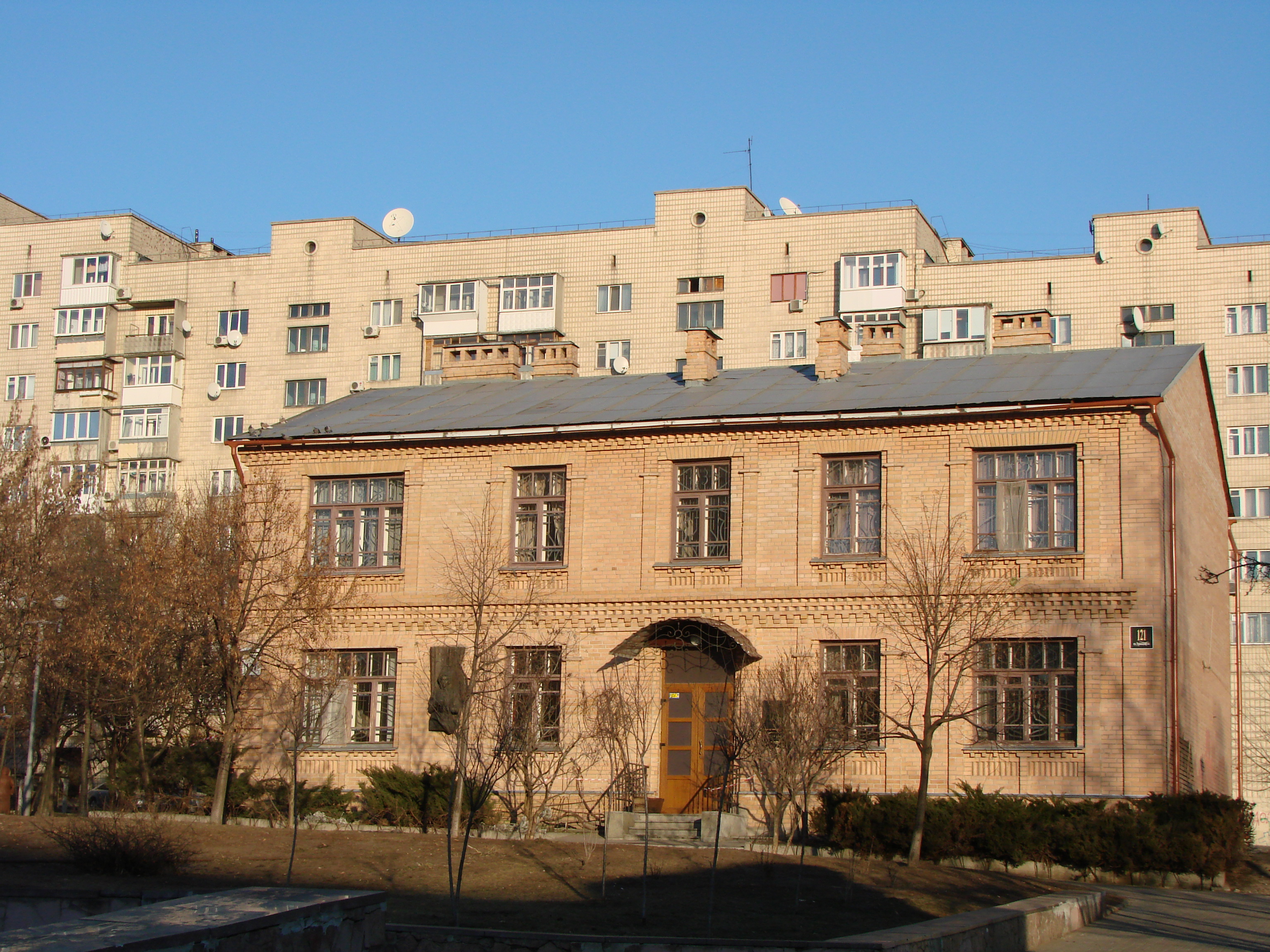 Museum of Maria Zankovetska, in Kyiv, Ukraine.